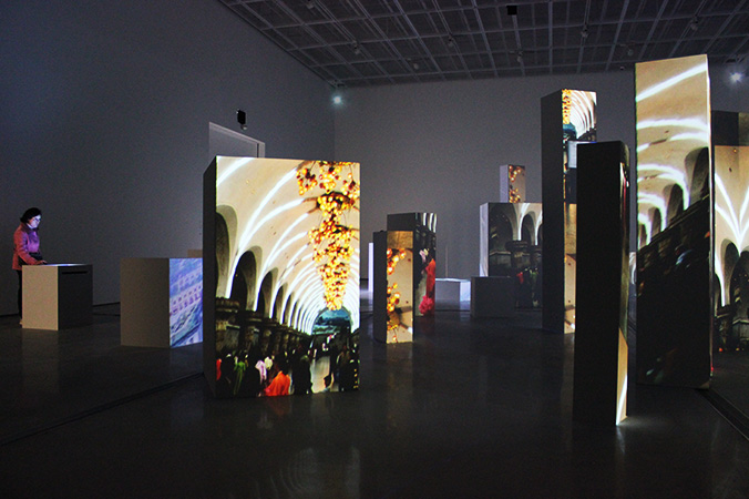 10.000 Moving Cities - Same but Different